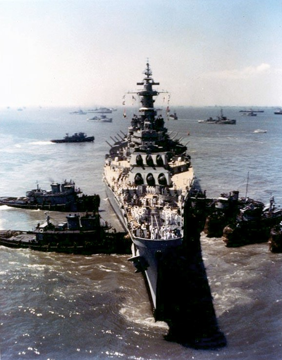 Photo #: 80-G-K-14925 (Color) USS Missouri (BB-63) aground on Thimble Shoals, Virginia, 21 January 1950, as several harbor tugs attempt to free her. She went aground on 17 January and was refloated on 1 February. Note minesweepers and other ships in the shipping channel beyond Missouri’s stern. Their apparent closeness indicates that the photograph was taken with a telephoto lens. Official U.S. Navy Photograph, now in the collections of the U.S. National Archives.